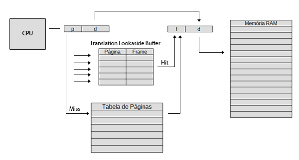 An example of workflow of a translation lookaside buffer